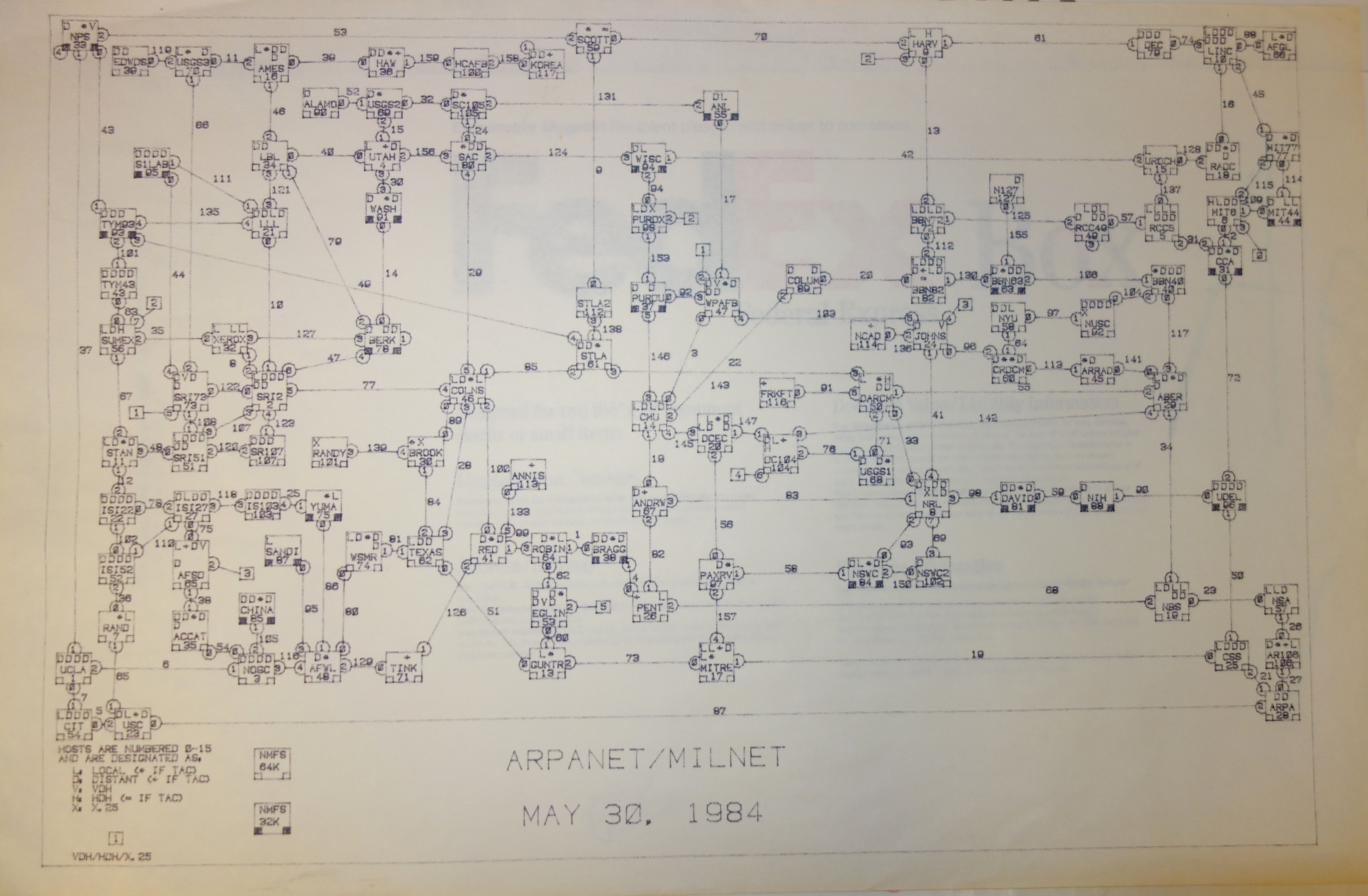 Map of the ARPANET / MILNET as of May 30, 1984. Created by BBN Technologies. These maps were freely distributed and copyright was never requested. They are thus in the public domain per US law, as stated in Wikimedia license tags: "published in the United States between 1978 and March 1, 1989 with neither copyright notice nor registration within 5 years."